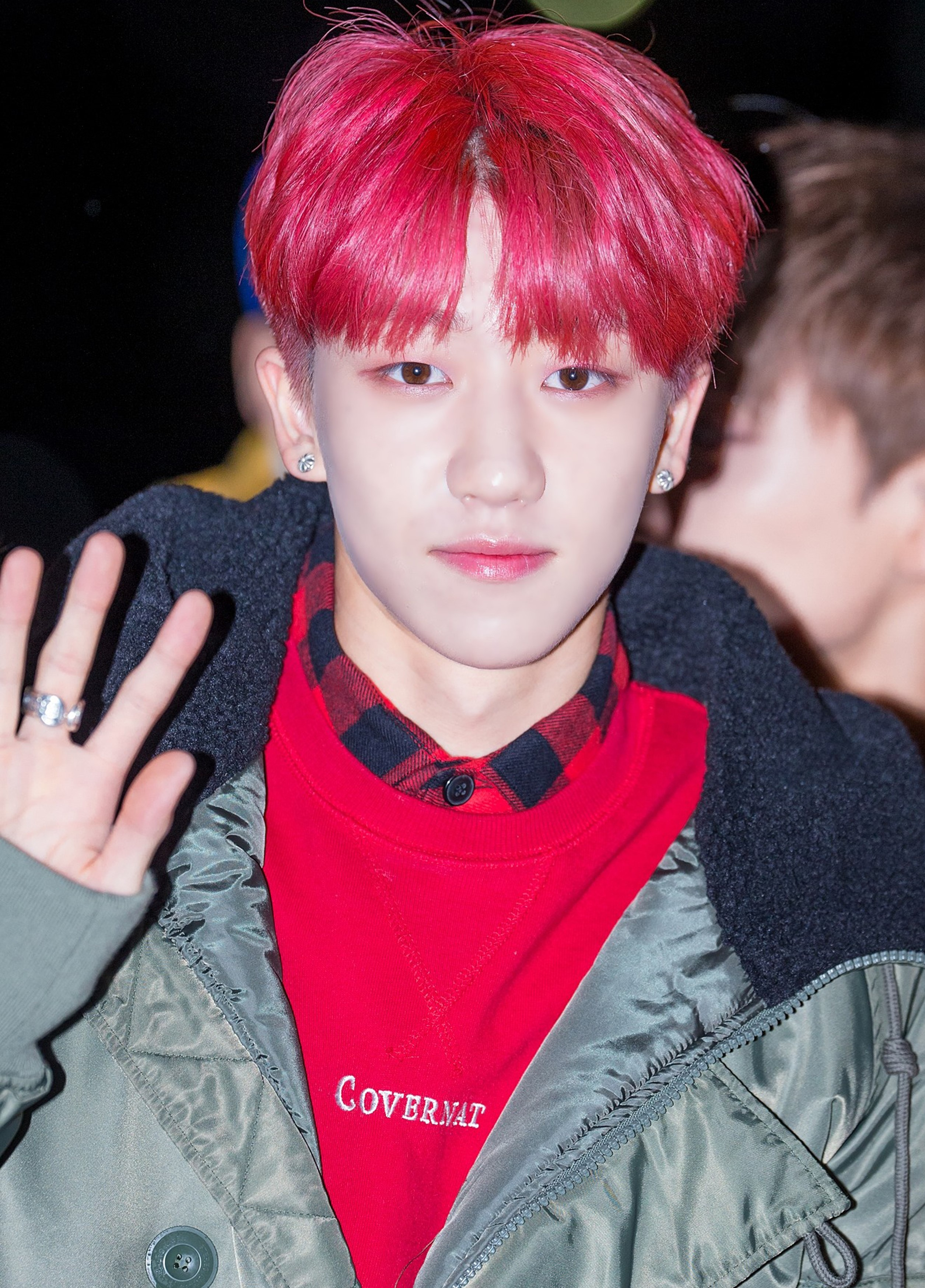 The8 leaving a Music Bank recording on December 23, 2016.